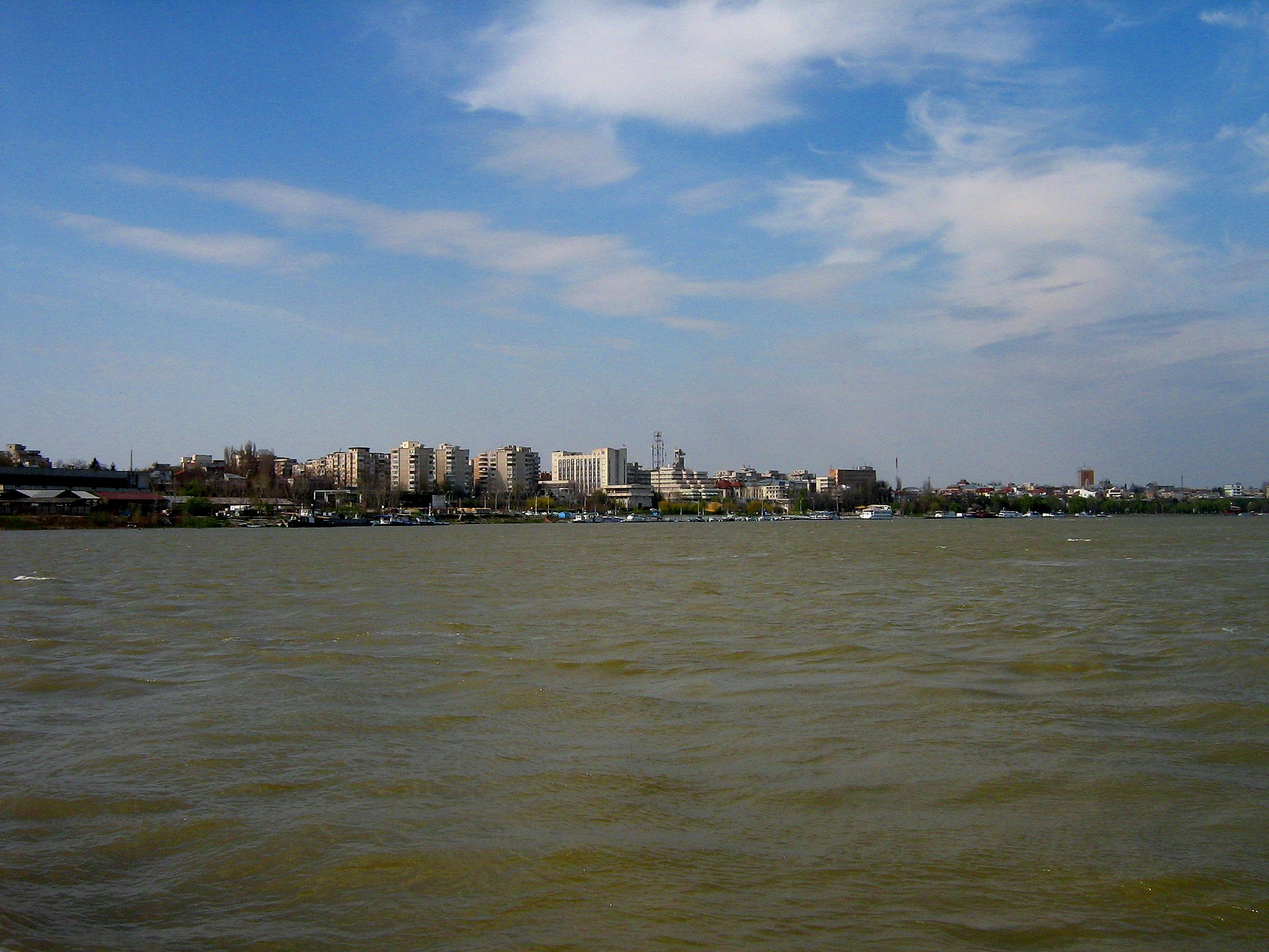 The following is the author's description of the photograph quoted directly from the photograph's Flickr page. "romania roumanie rumanien Rumänien România fluss fluviu river Br%u0103ila braila danube donau duna dunaj dunav dunarea dunare %u0414%u0443%u043D%u0430%u0432 tuna Dun%u0103re Dun%u0103rea "